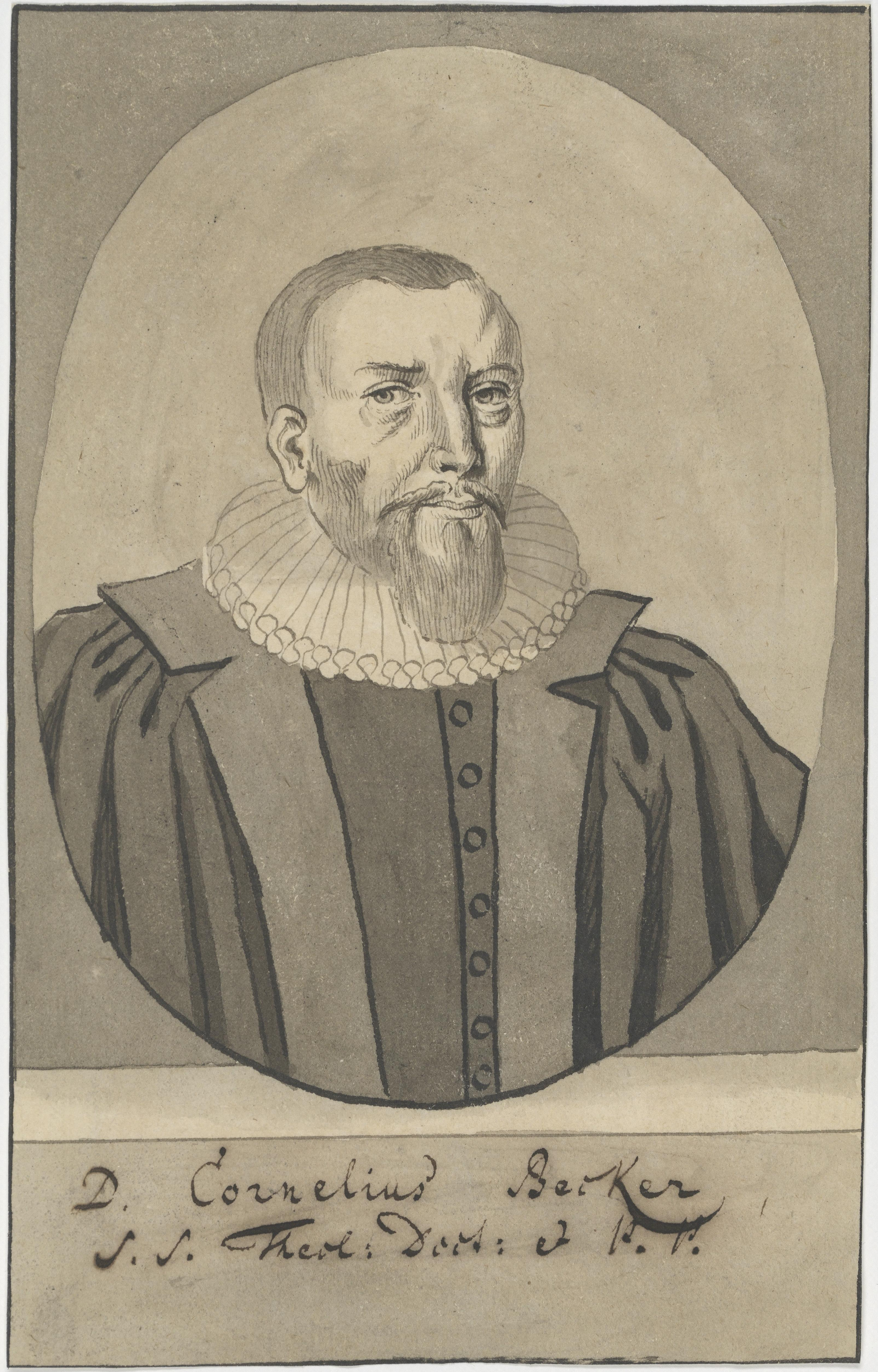 Depicted person: Cornelius Becker